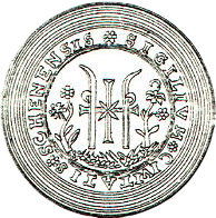 Coat of arms for Skien, Norway, from 1609.